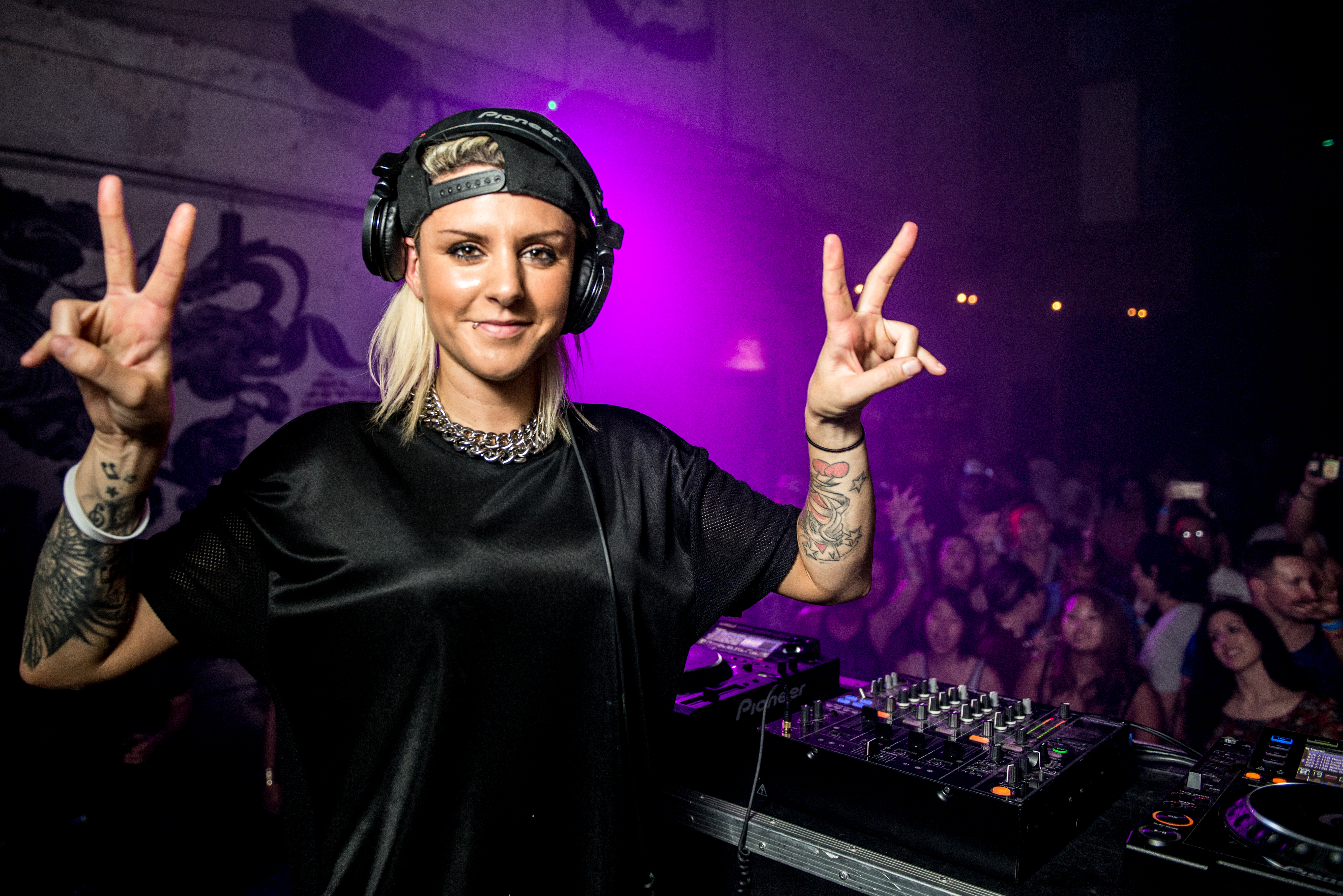 Christina Novelli at Nextdoor in Honolulu, Hawaii, May 15, 2014 Photo by Peter Chiapperino